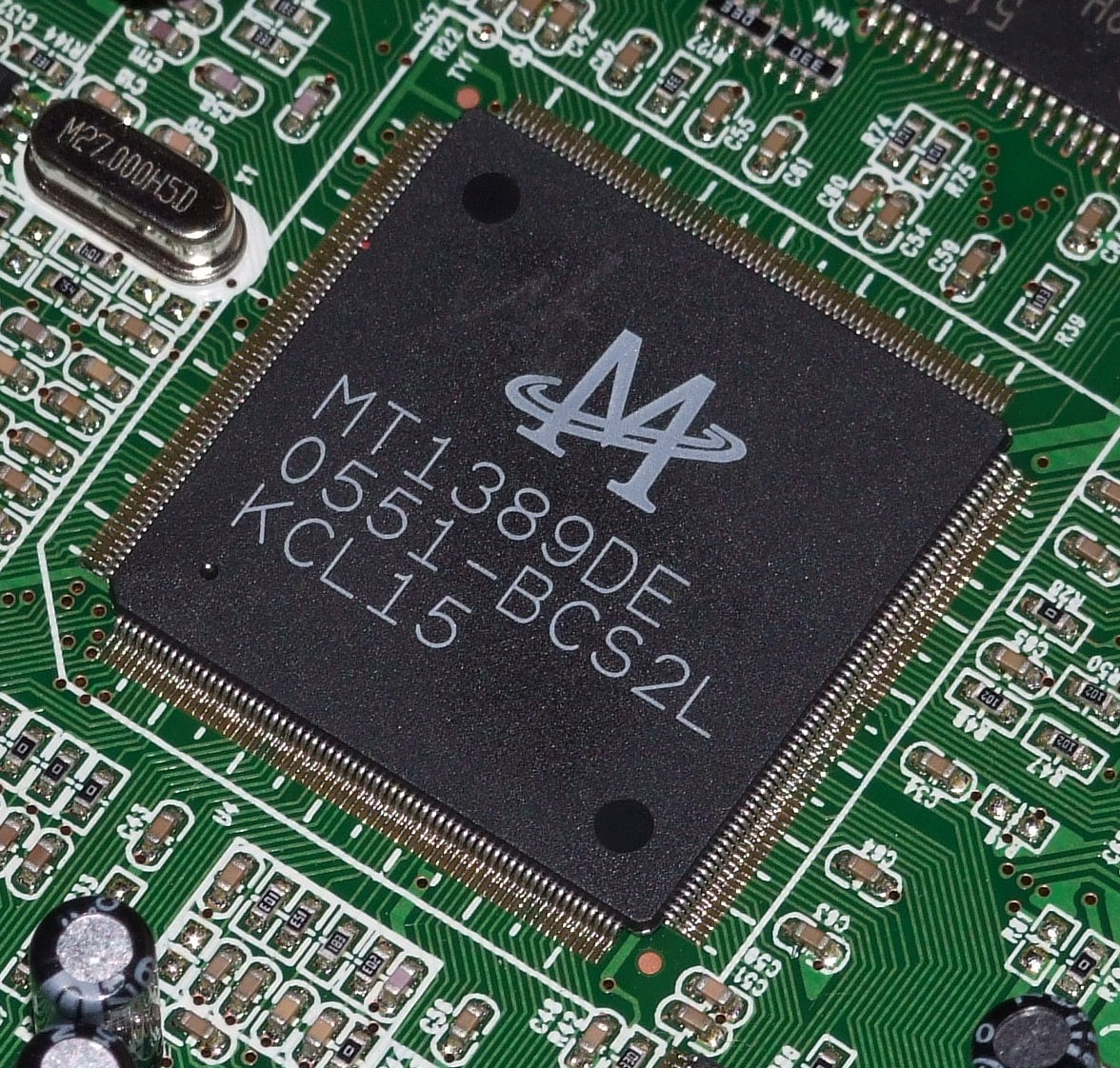 Mediatek MT1389DE, a chipset for DVD player.